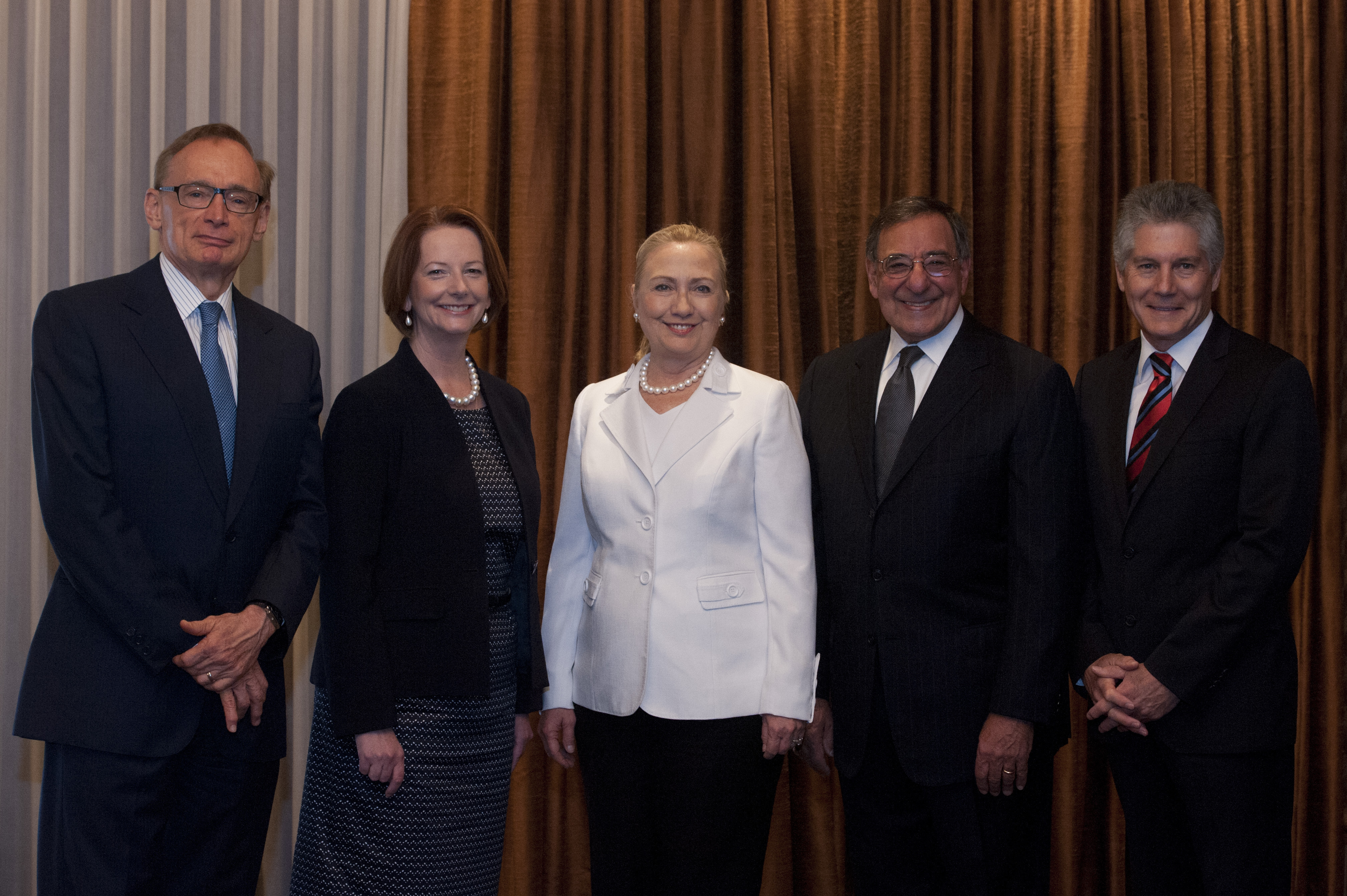 Secretary of Defense Leon E. Panetta meets with Australian Prime Minister, Julia Gillard along with U.S. Secretary of State Hillary Clinton, Australian Minister of Defense Stephen Smith and Australian Foreign Minister Bob Carr in Perth, Australia, Nov. 13, 2012.